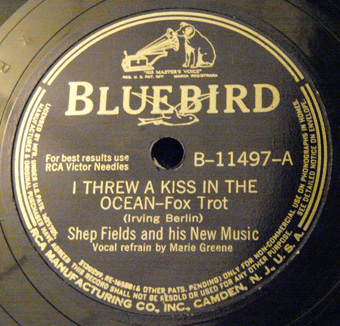 Shep Fields -I Threw A Kiss